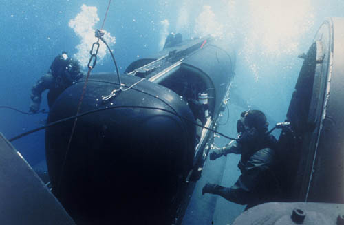 Image of a SEAL Delivery Vehicle Team